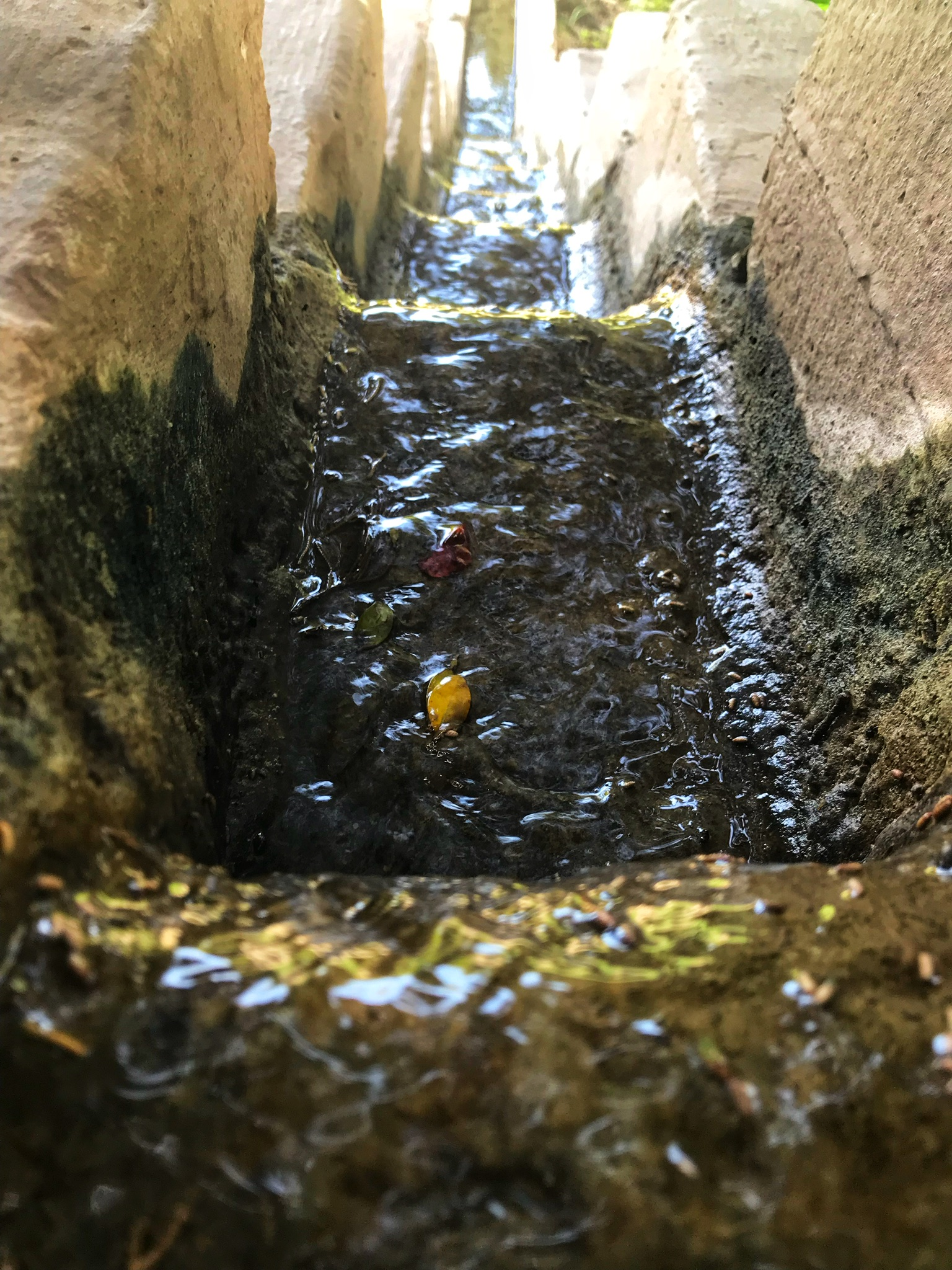 قناة ماء في بستان الخياط في حيفا